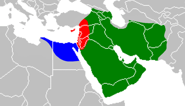 Map of the 7th century First Islamic Civil War (First Fitna) territories. Regions under the control of Muawiyah I (red), 'Amr ibn al-'As (blue), and Ali ibn Abi Talib (green) during the First Islamic Civil War (First Fitna). Based on this animated map.